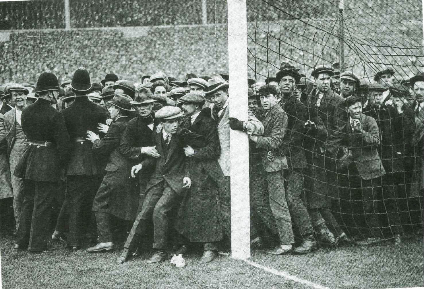 Scene of the crowd crush at the en:1923 FA Cup Final. Scanned in from The History of the Wembley FA Cup Final by Andrew Thraves, but the identity of the photographer appears to be unknown and therefore, in conjunction with its age, it is believed that this renders the image PD as per the template